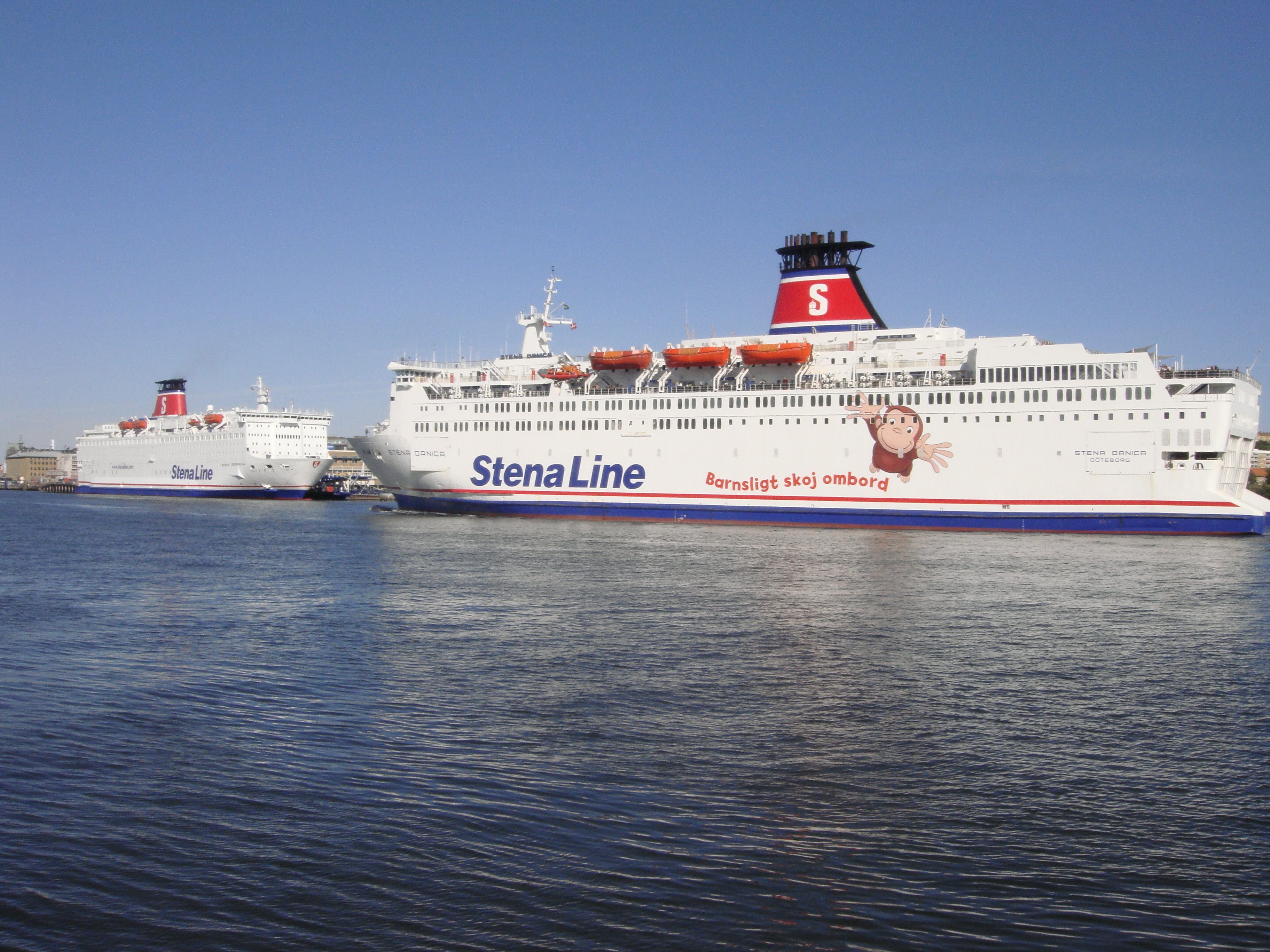 Stena Germanica and Stena Danica in Gothenburg. Information about Stena Danica may be found at IMO 7907245. A ship can change name and flag state through time, but the IMO number remains the same through the hull's entire lifetime. As a result, it can be useful to identify a ship by using the IMO number. Information about Stena Germanica may be found at IMO 7907659. A ship can change name and flag state through time, but the IMO number remains the same through the hull's entire lifetime. As a result, it can be useful to identify a ship by using the IMO number.